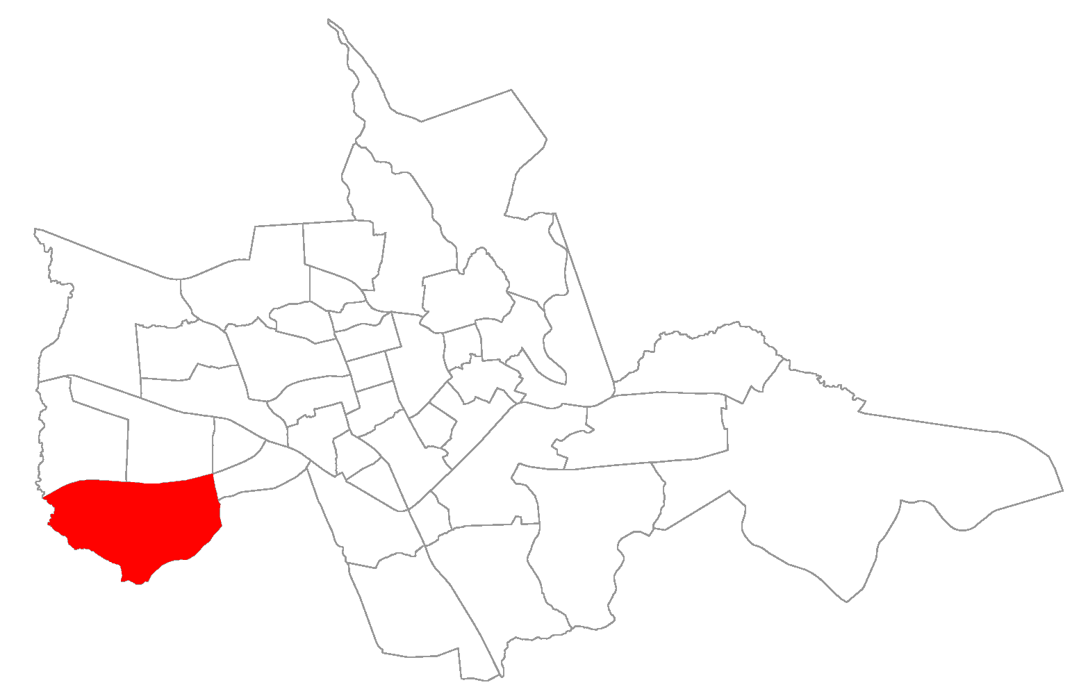 neighborhood/district of Santa Maria, Rio Grande do Sul